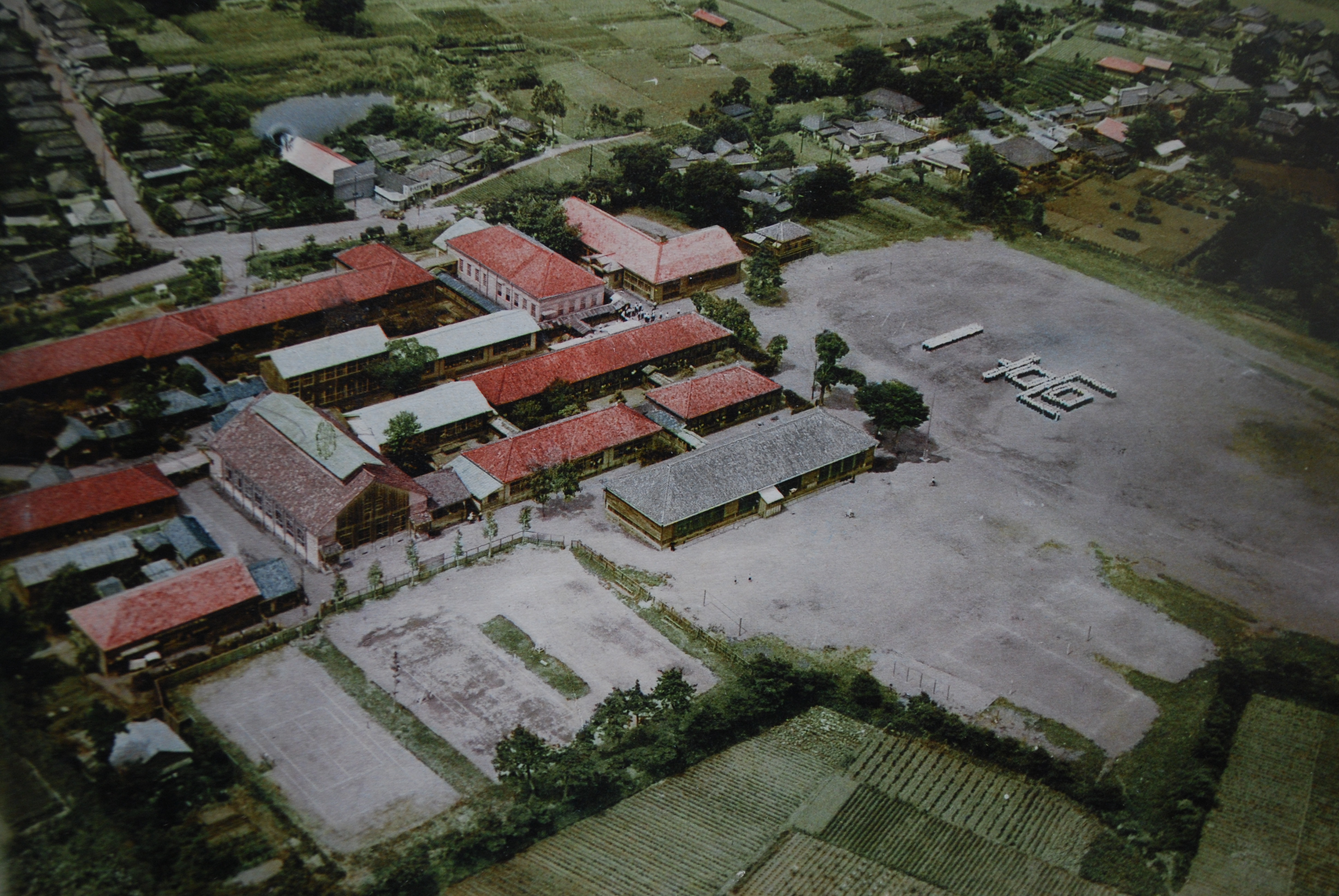 The First Sawara Senior High School about 1958,Sawara-city,Japan